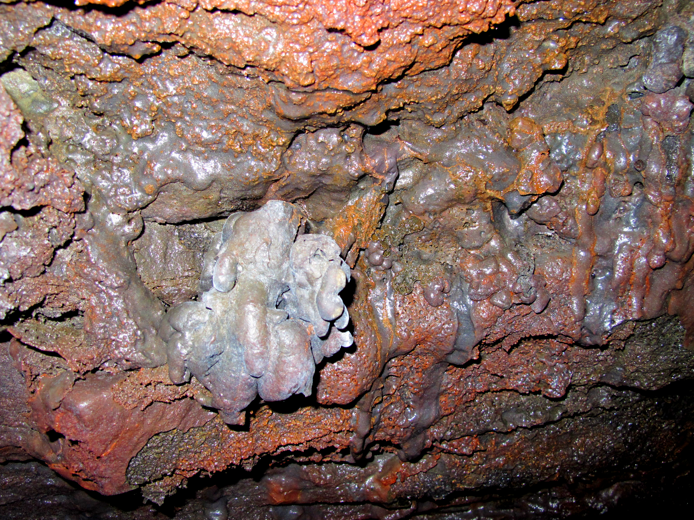 Leiðarendi lava tube in Iceland.